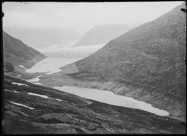 Lake Märjelen and Altesch Glacier in 1909